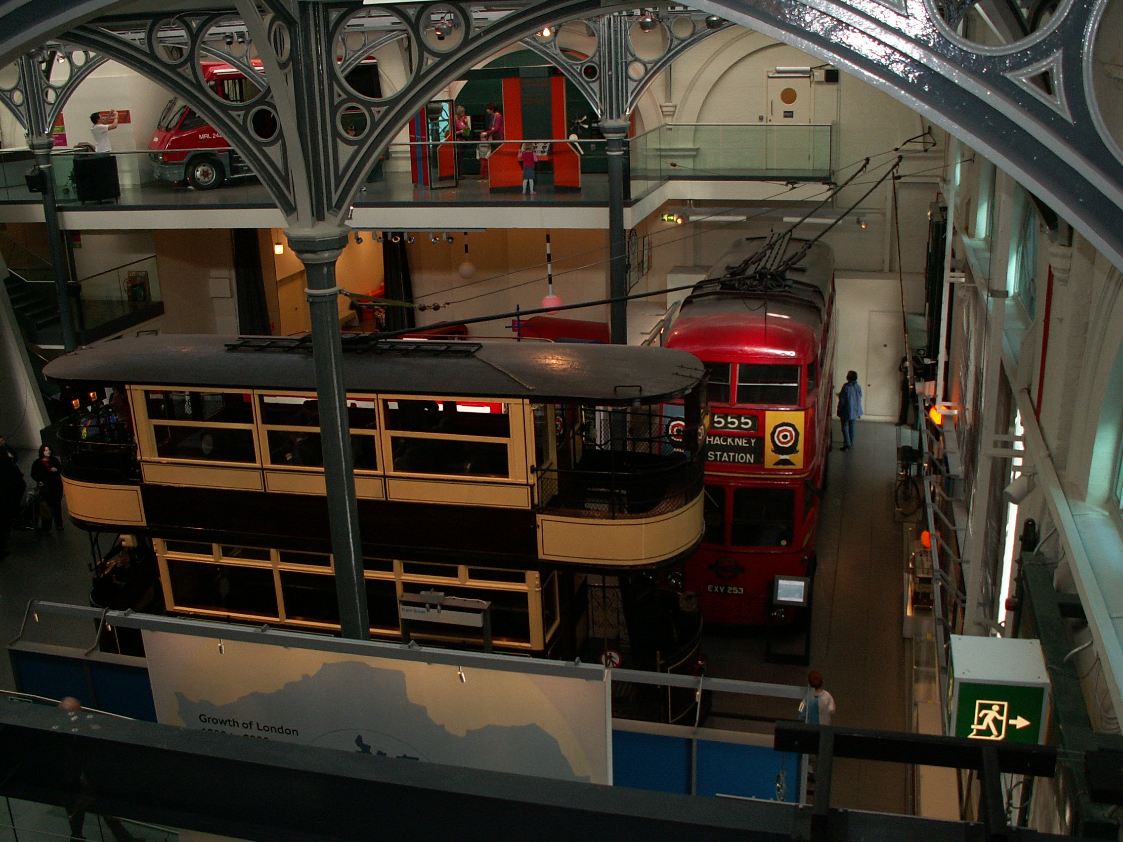 London's Transport Museum